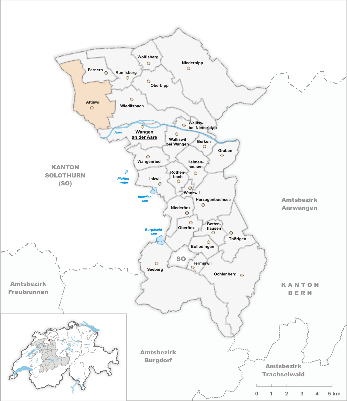 Municipality Attiswil